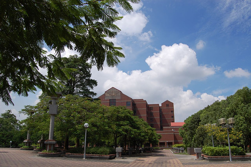 Taiwan National Chung Cheng University Library